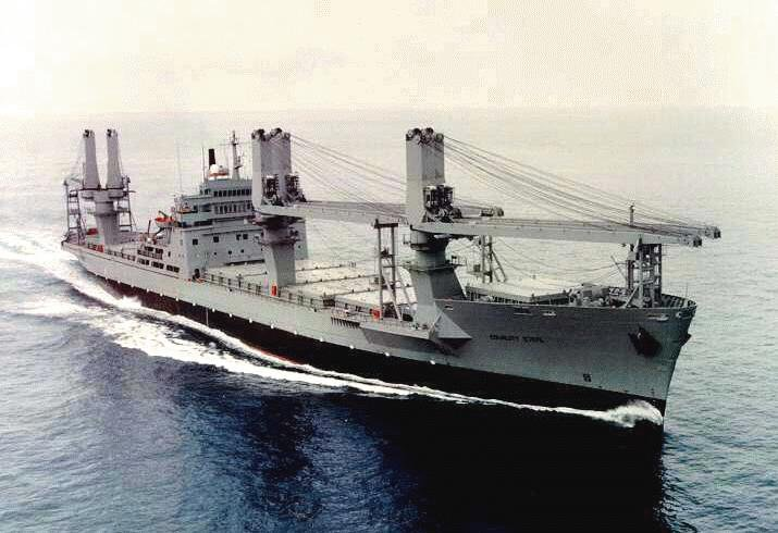 SS Equality State (T-ACS-8) underway, date and location unknown. US Navy photo